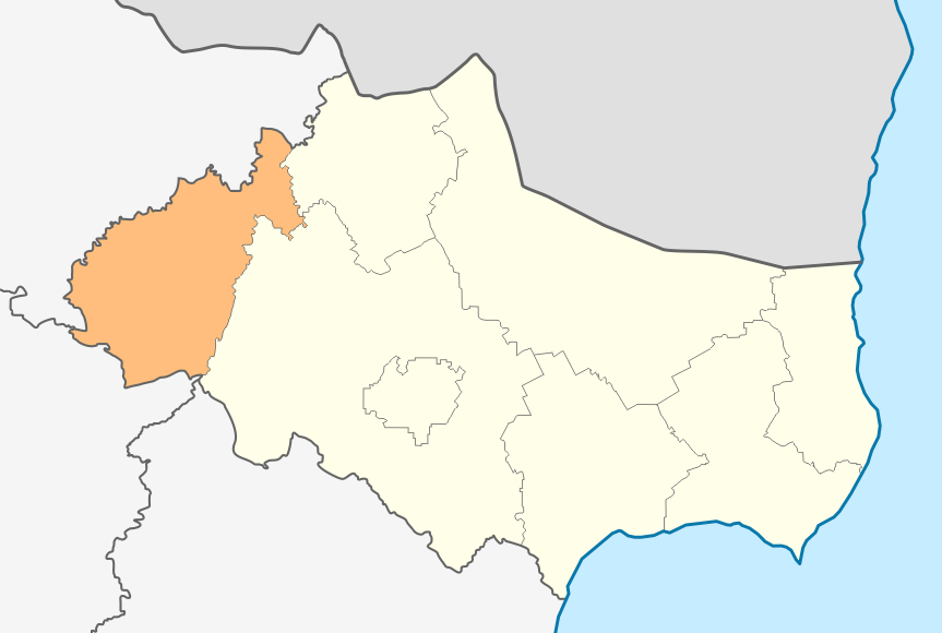 Map of Tervel municipality, Dobrich Province